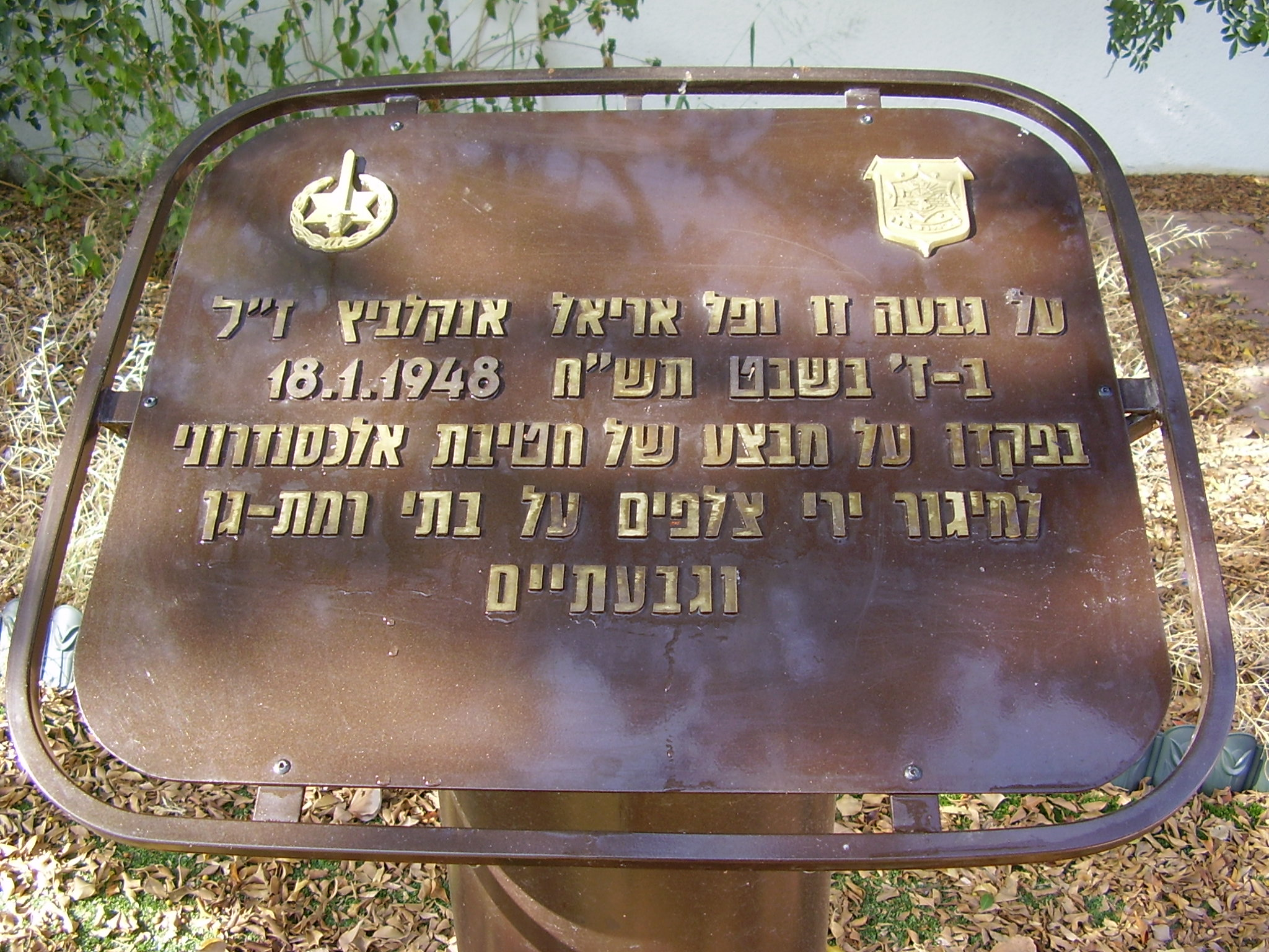 alexandroni brigade memorial plaque in ramat gan לוחית זיכרון ללוחם אלכסנדרוני אריאל אנקלביץ שנפל בפעולה במלחמת העצמאות במקום בו עומד כיום בי"ס תיכון בליך